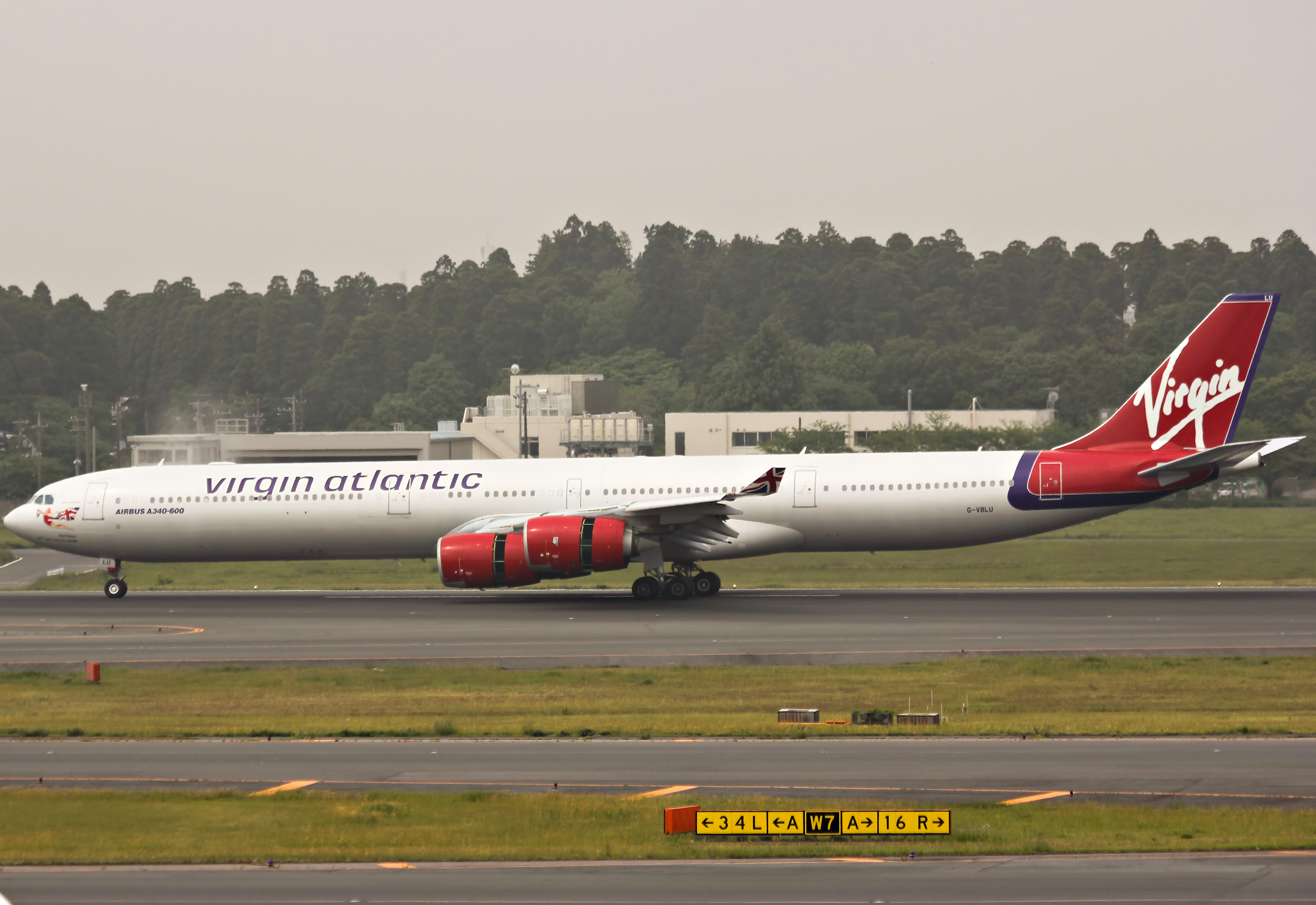 Airbus:340-642 SN:723 Named: Soul Sister